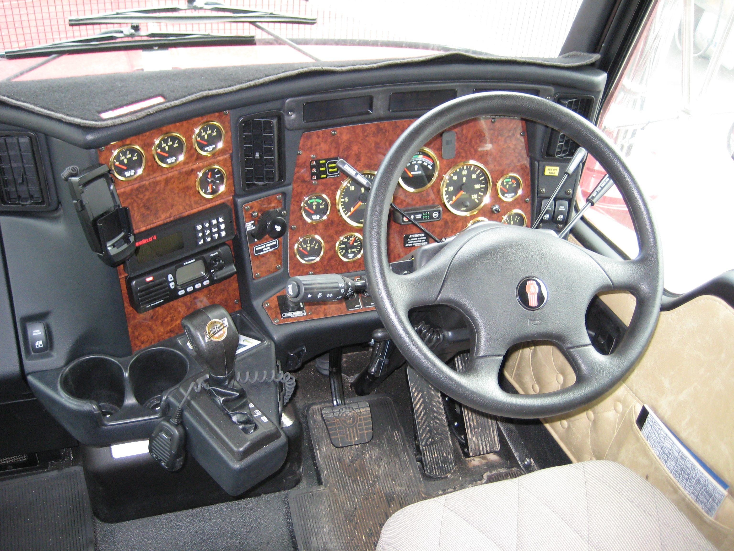 Driver's workplace in Kenworth T408 SAR conventional